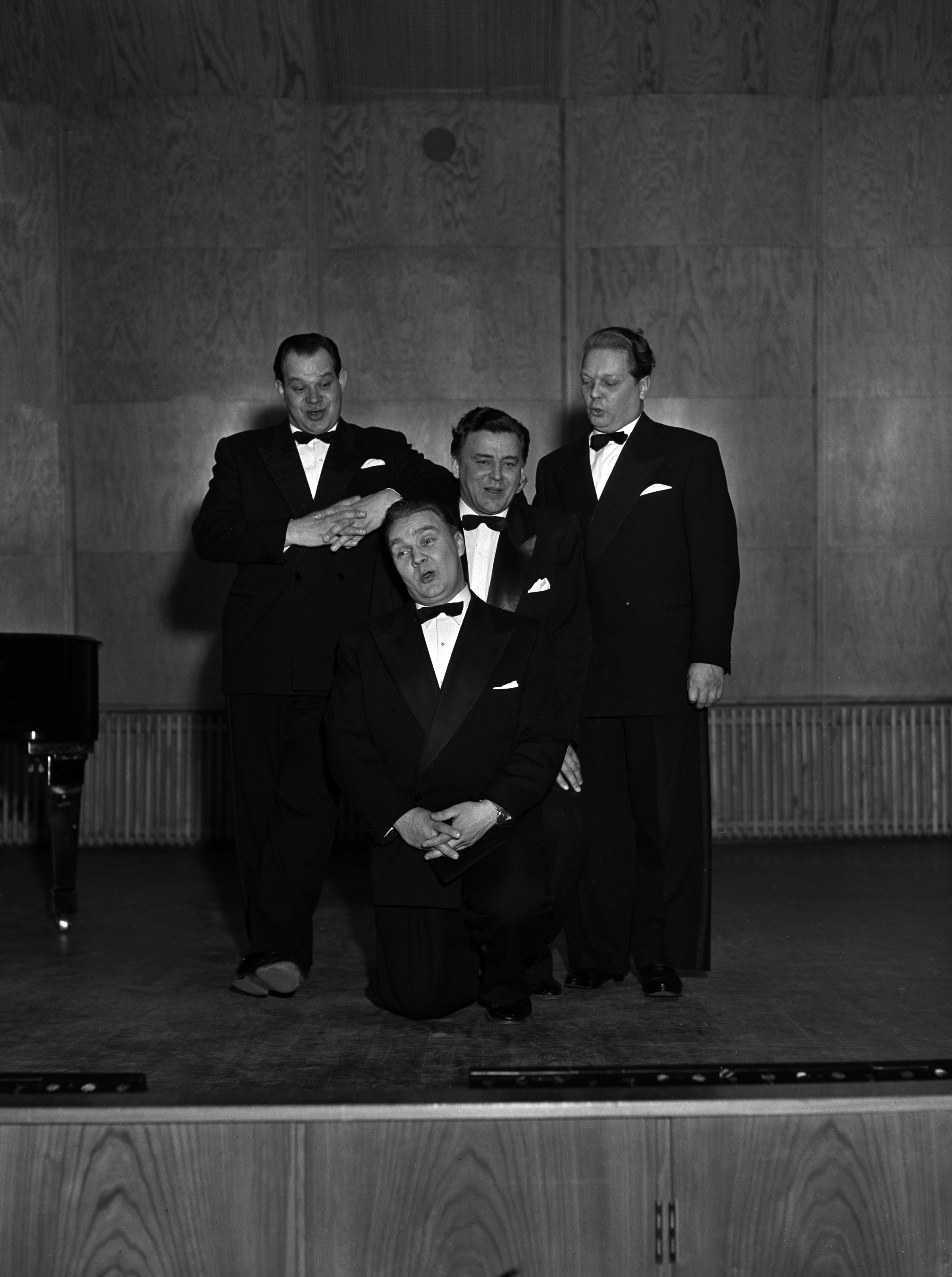 Photograph of the Finnish vocal quartet Kipparikvartetti (Auvo Nuotio, Olavi Virta, Teijo Joutsela, Kauko Käyhkö).